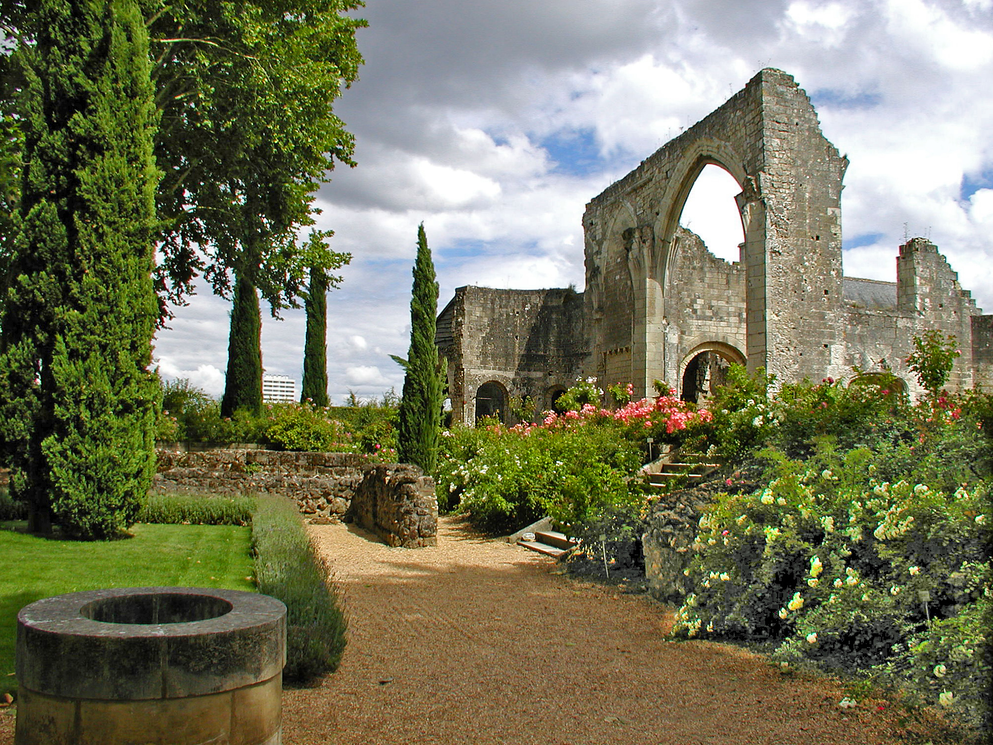 Remnants of the former priory church of the 12th century (the bedside and Romanesque, the Gothic arch and the south transept), destroyed from 1744, following the canonical suppression of the priory of Saint-Cosme